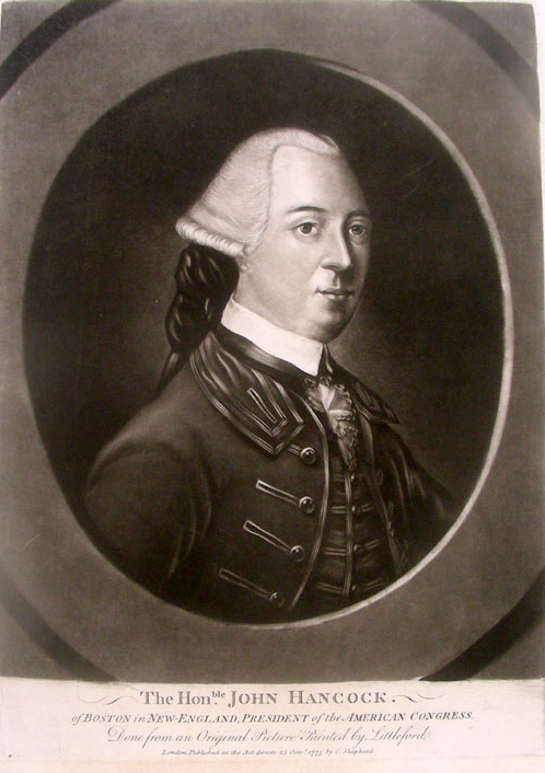 Portrait of John Hancock (1737-1793)